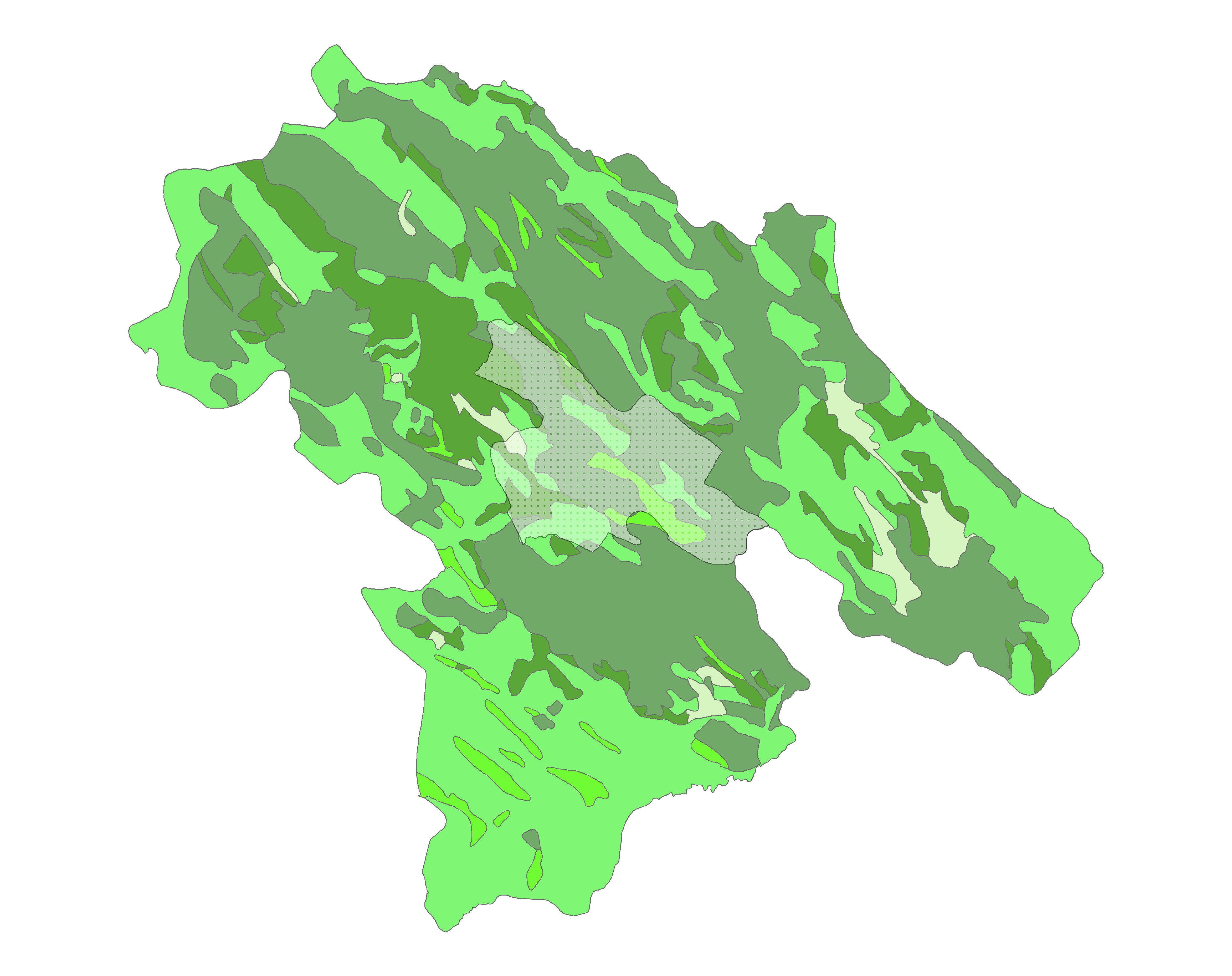 Choram land use for farming Dry farming Forest Irrigated farming Range Rock out crops